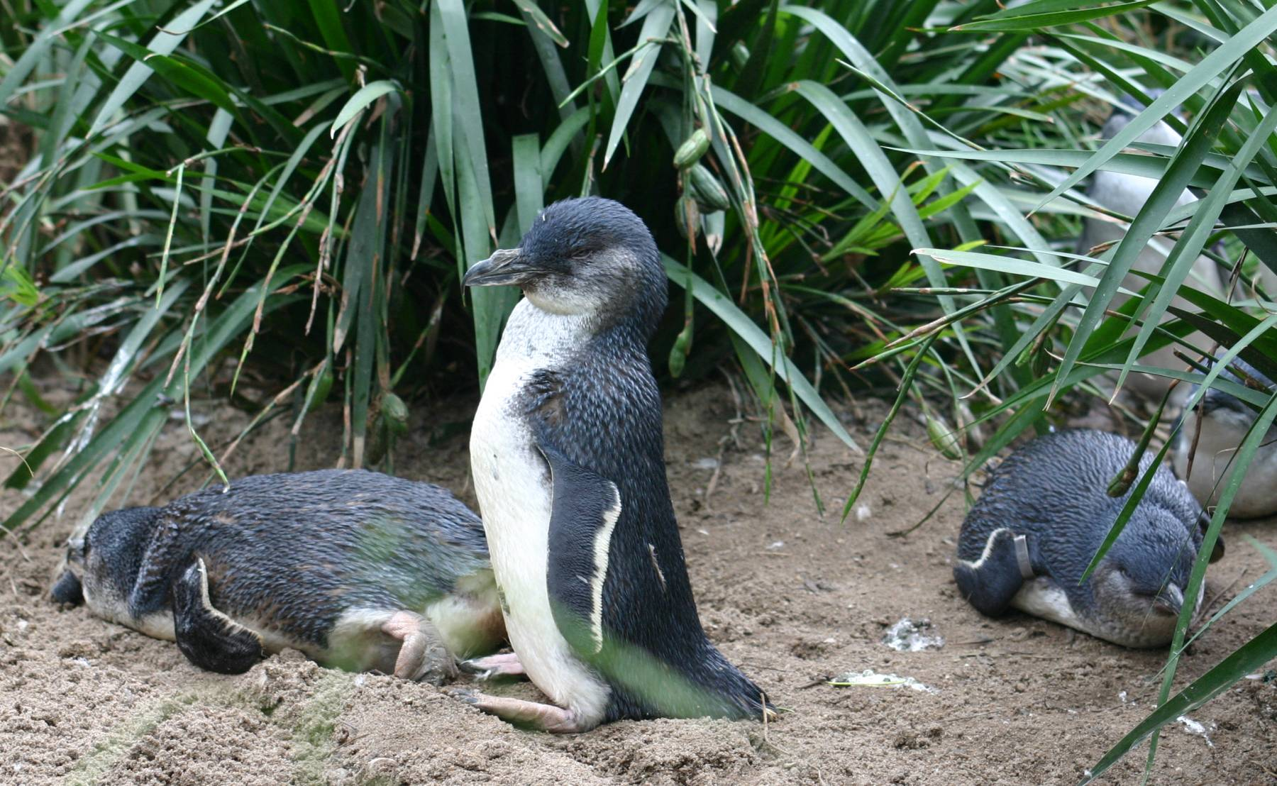 Fairy Penguins in Melbourne Zoo.